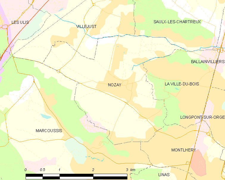 Map of French municipality Nozay